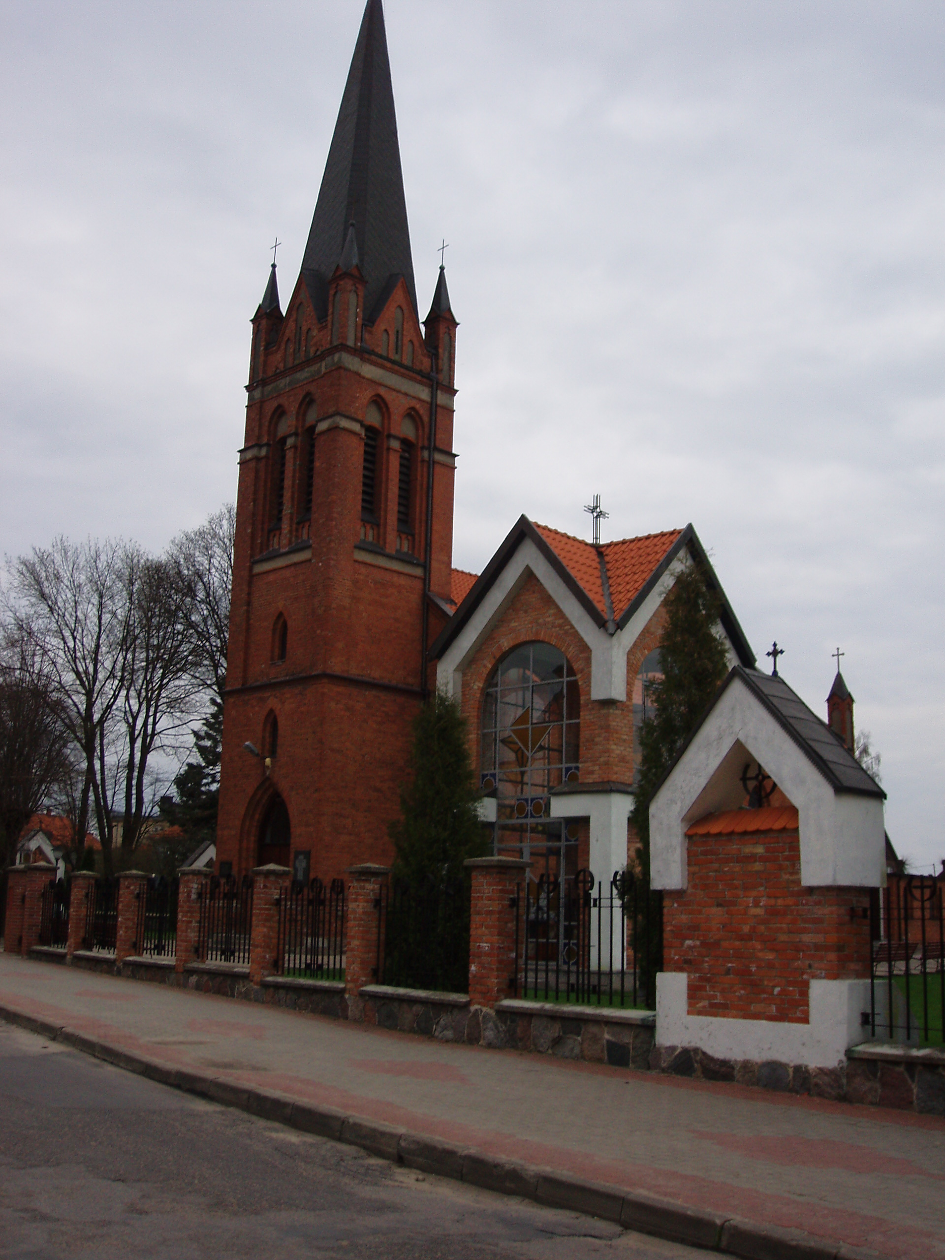 Exaltation of the Holy Cross church in Olecko, Poland